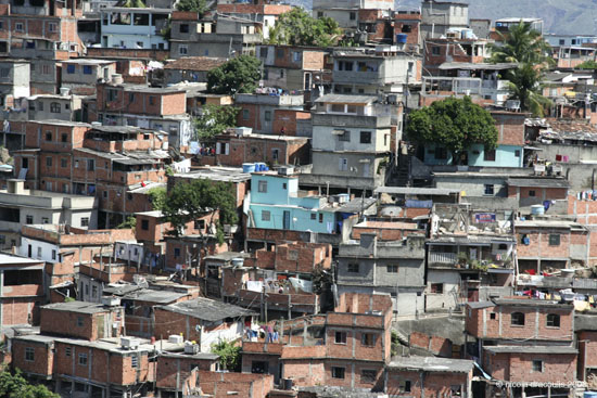 Favela (shanty town) in Rio de Janeiro